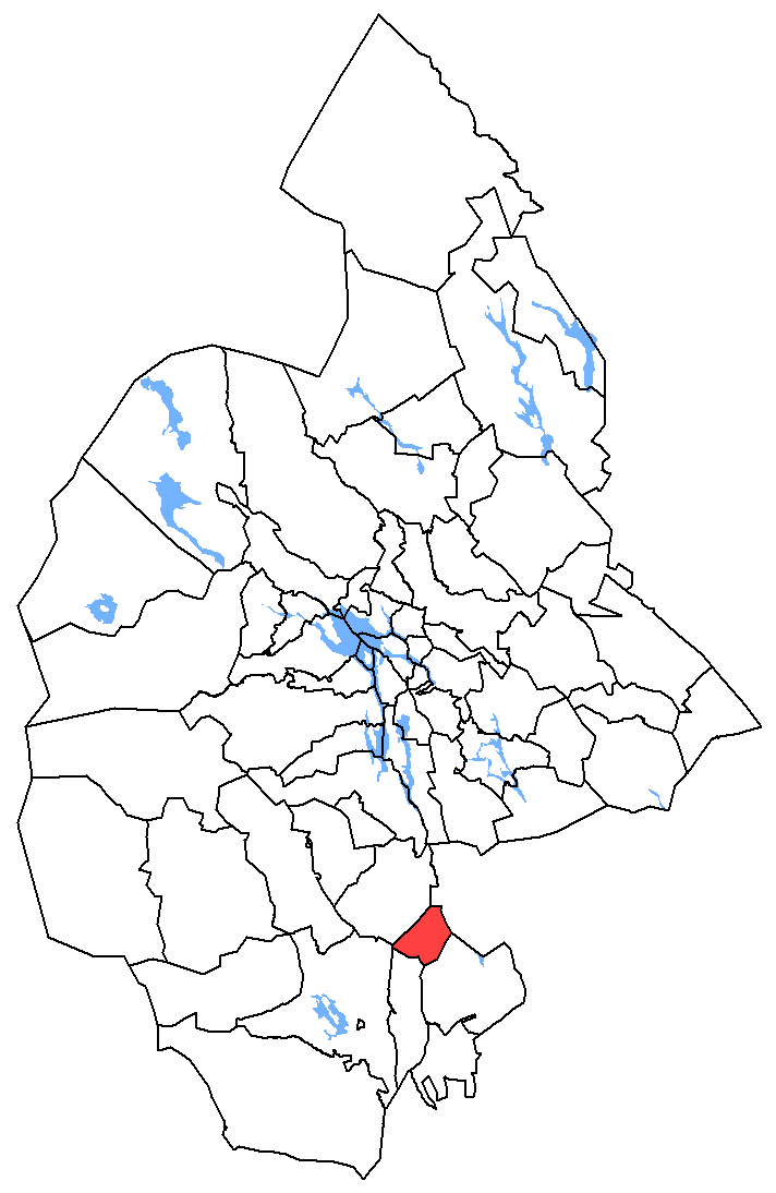 Överhogdal municipality of Jämtland County 1950.